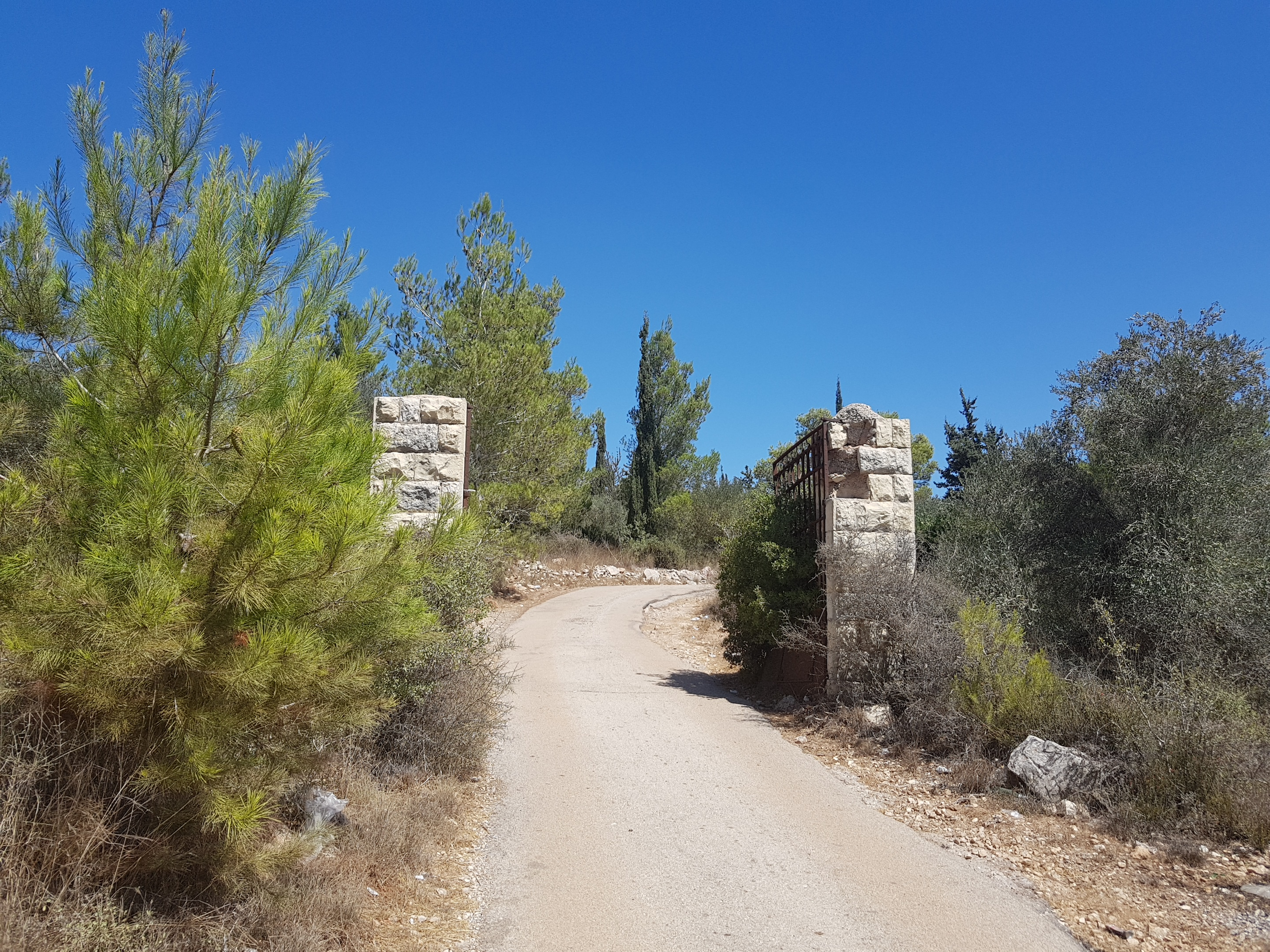 The entrance path to the Um Safa Forest